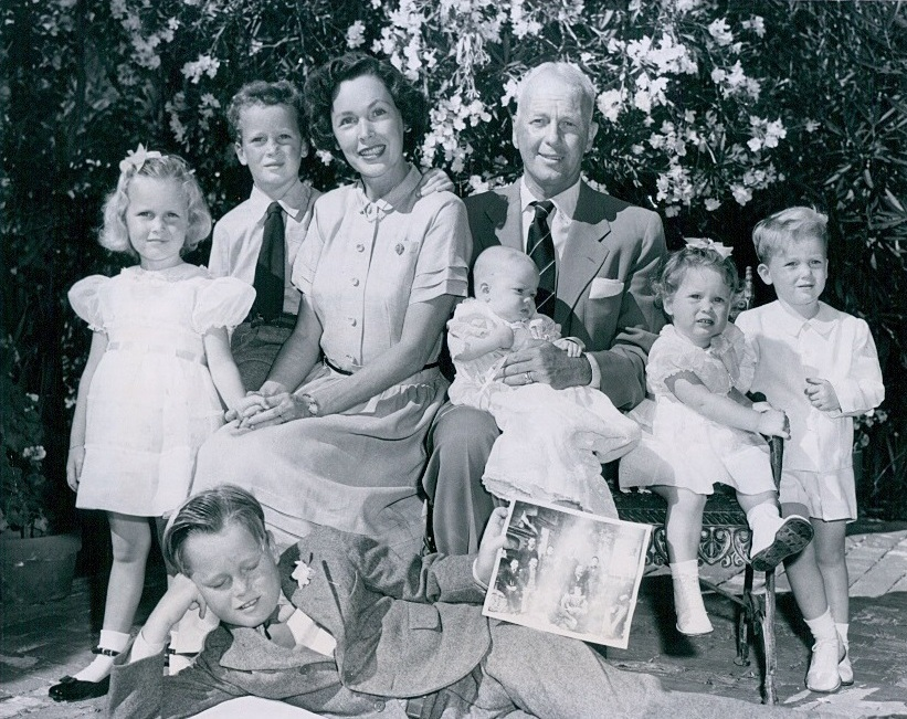 Photo of Maureen O'Sullivan and John Farrow with their children in 1950. From left: Maria (Mia), Patrick, O'Sullivan, Farrow holding Stephanie, Prudence and John Charles. Michael lies at their feet holding a photo from the family's album.